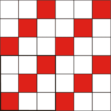 Twill weave